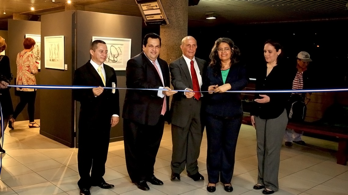 Art project Bajo Presion Inaguration Night- Staring Giovanni Gil engraving artist